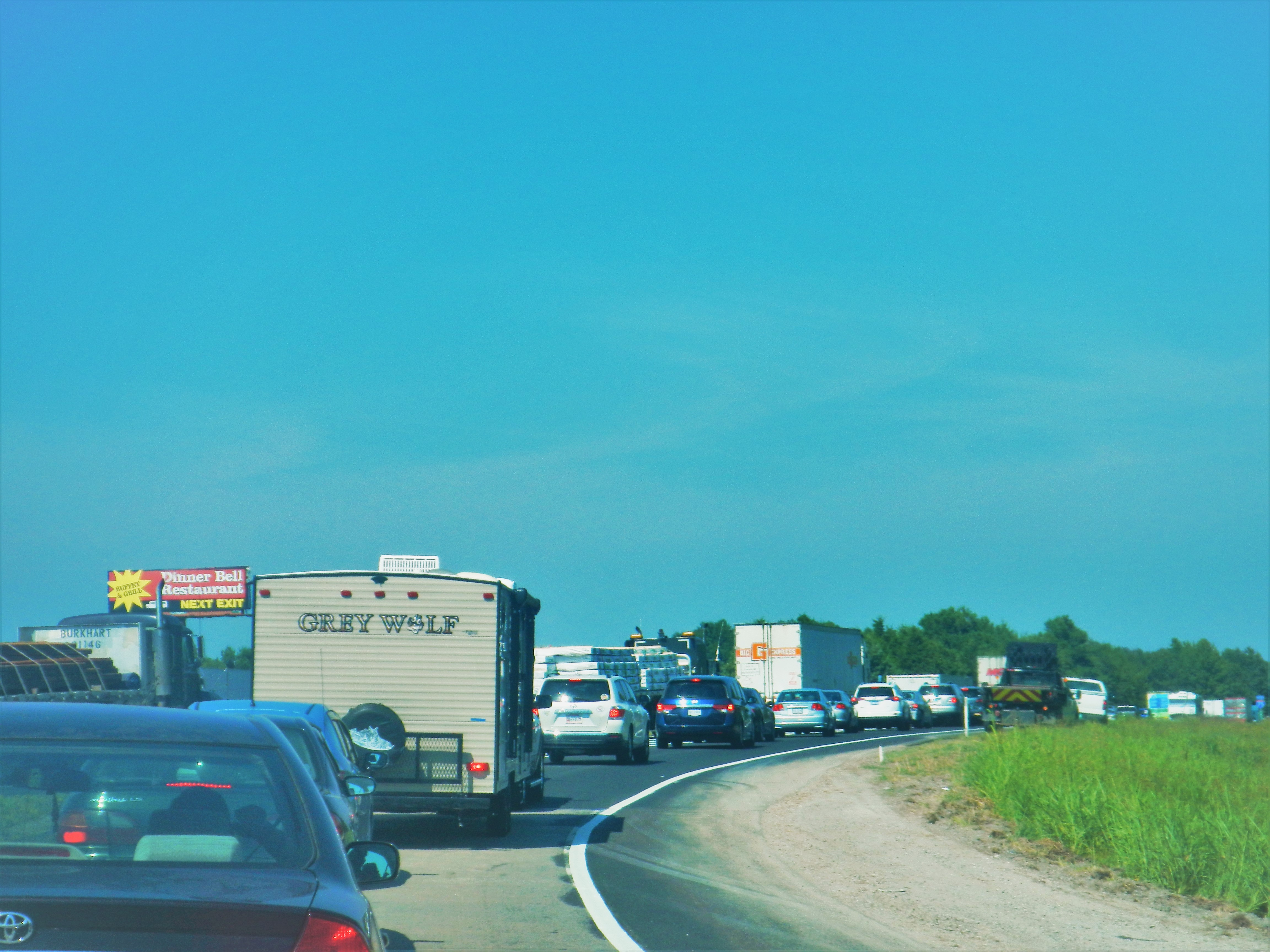 traffic after the Solar eclipse of August 21, 2017, at I-75 ramp near Sweetwater, Tennessee